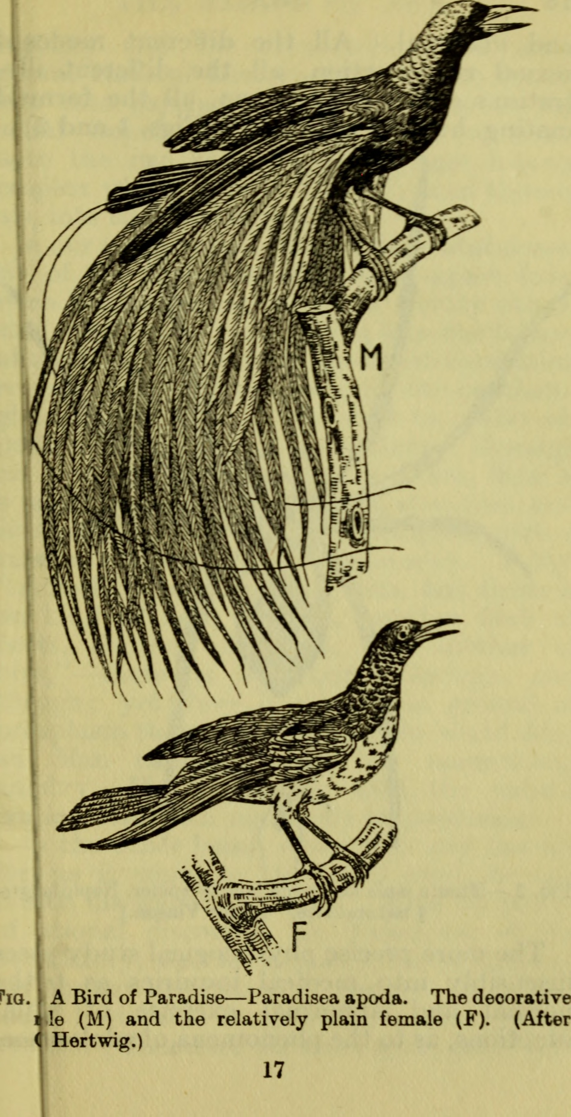 Title: Sex (electronic resource) Year: 1914 (1910s) Authors: Geddes, Patrick, Sir, 1854-1932. Subjects: Sex Publisher: New York : H. Holt and company London : Williams and Norgate Text Appearing Before Image: ' Text Appearing After Image: 18 SEX and mammal. All the different modes ofsexual reproduction, all the different illus-trations of sex-dimorphism, all the forms ofmating, have to be studied (Figs. 1 and 2).